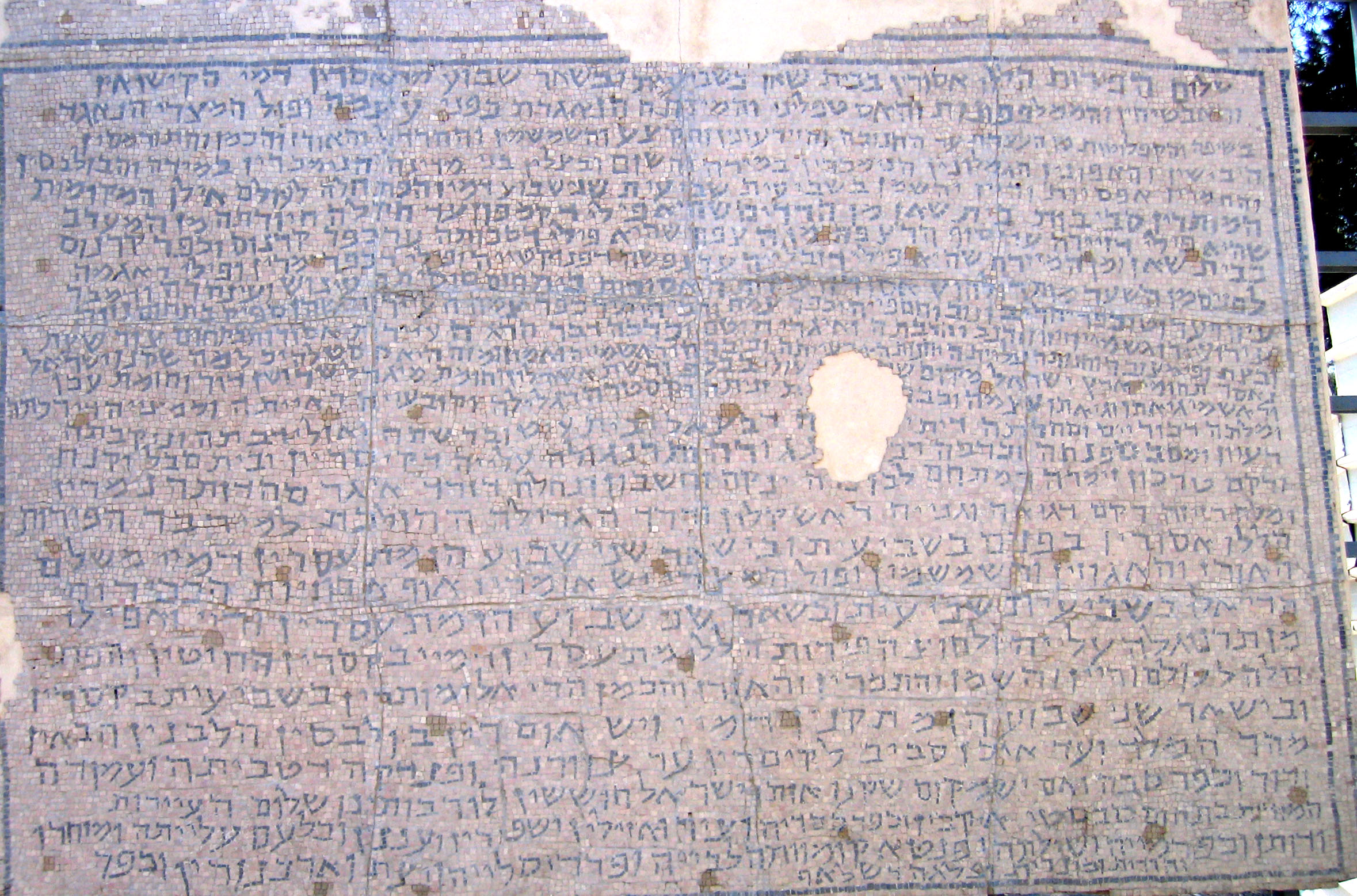 Mosaic Inscription from a Synagogue in Rehov, Beth Shean Vally, 6th-7th century CE. at the Israel Museum, Jerusalem.